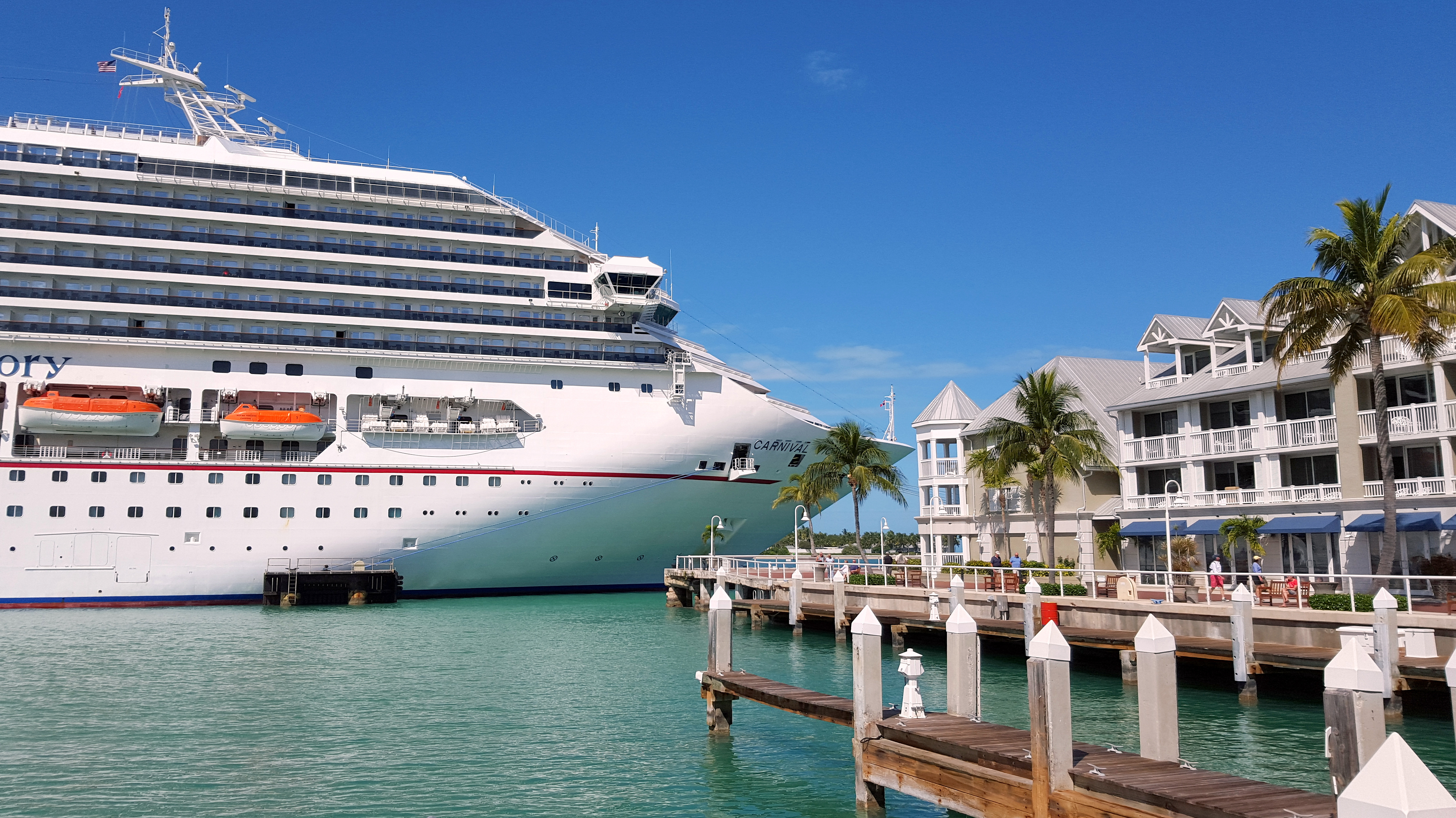 A cruise ship docked in Key West, Florida